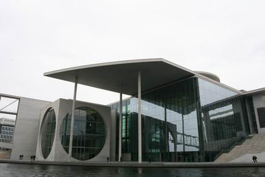 photo by kiaa